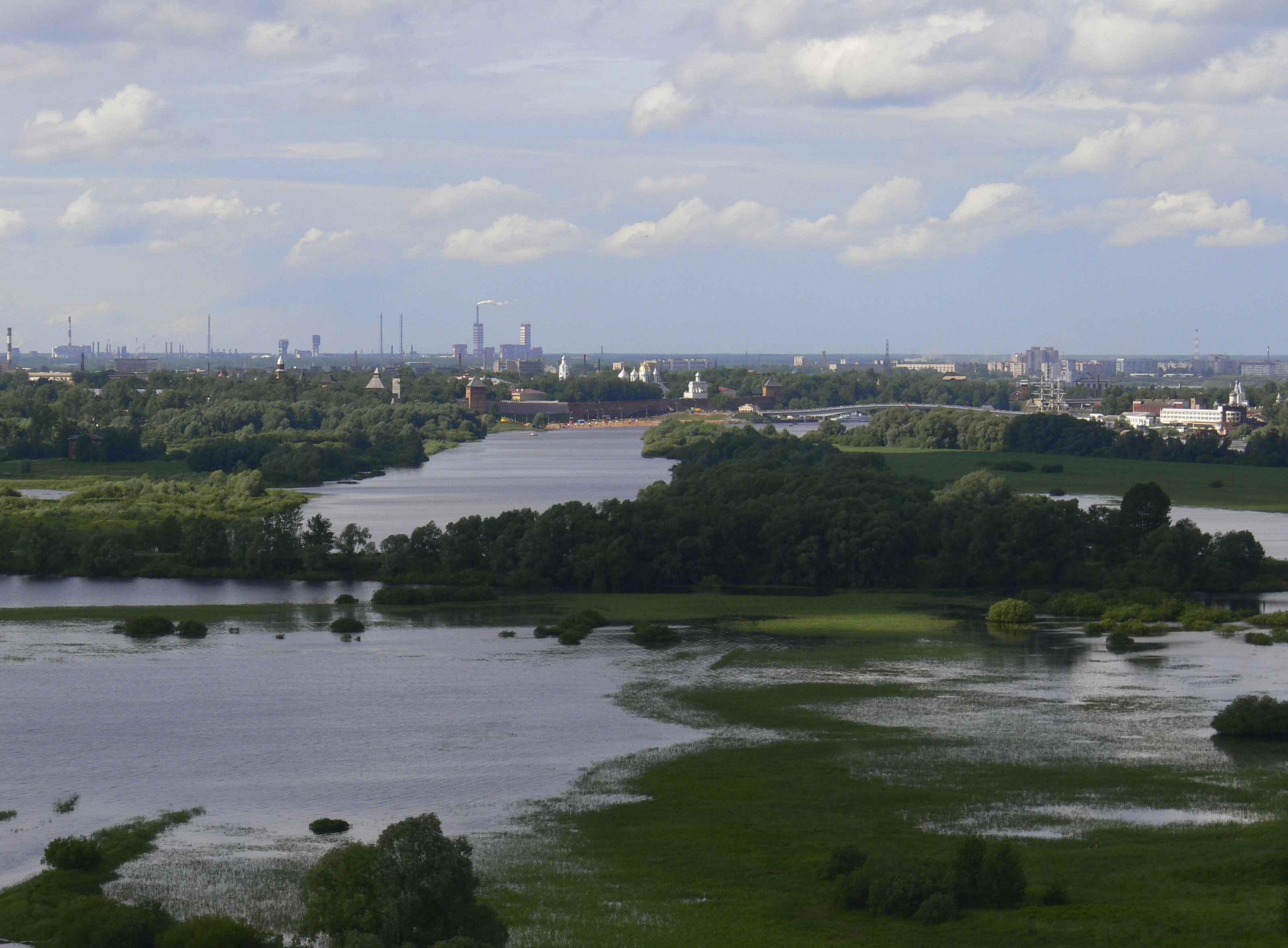 View at Veliky Novgorod from the bell tower of Yuriev Monastery. Russia